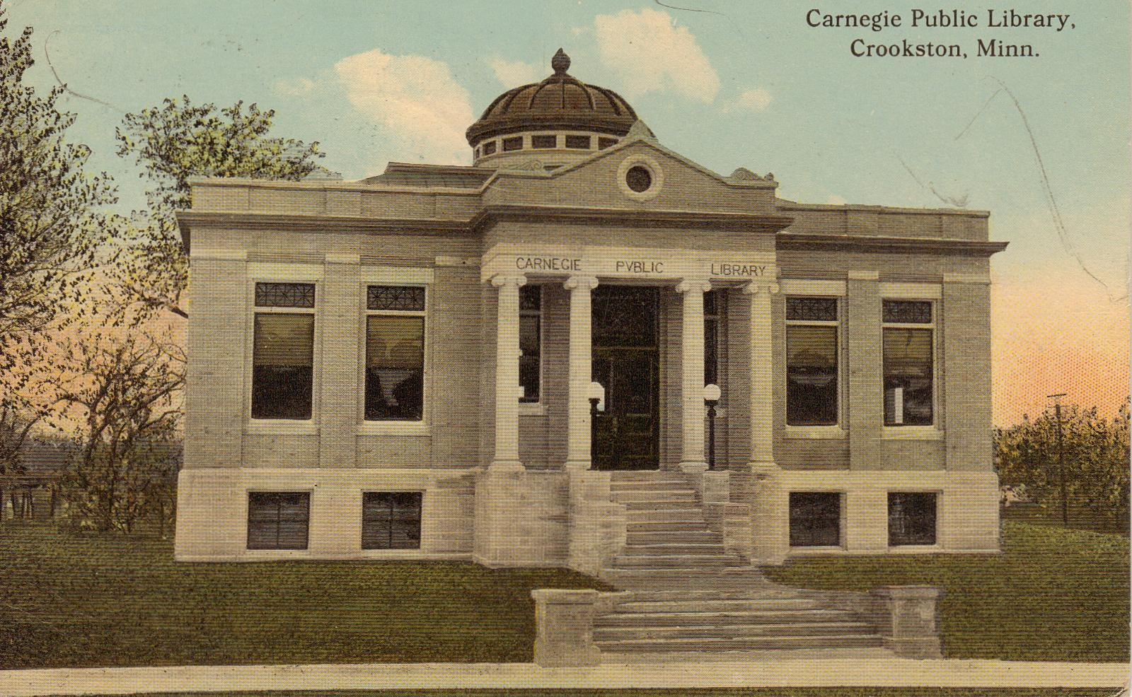 Image of the Carnegie Public Library at Crookston, Minnesota